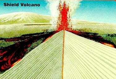 Structure of a shield volcano.